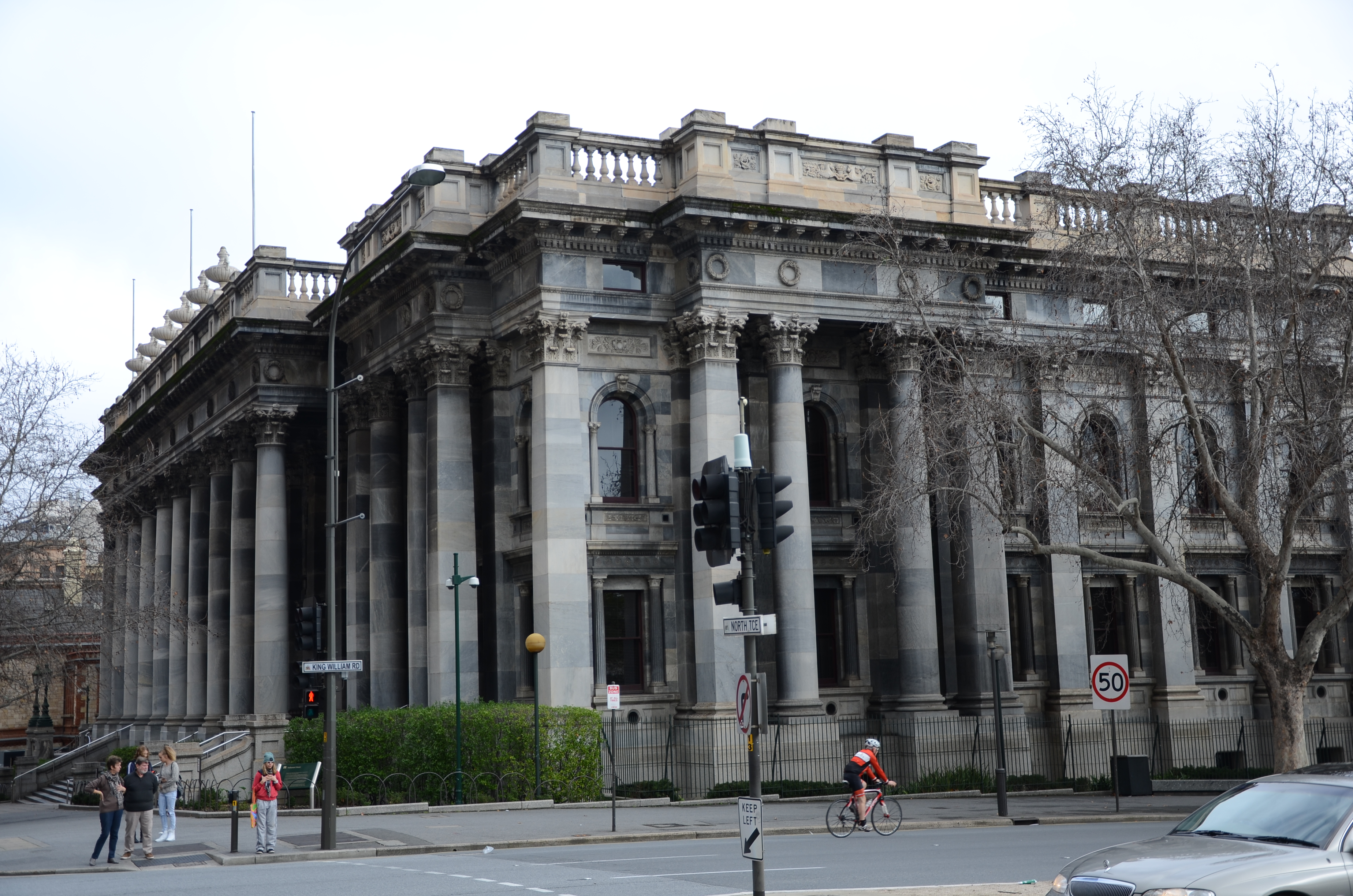 Parliament House, North Terrace, Adelaide